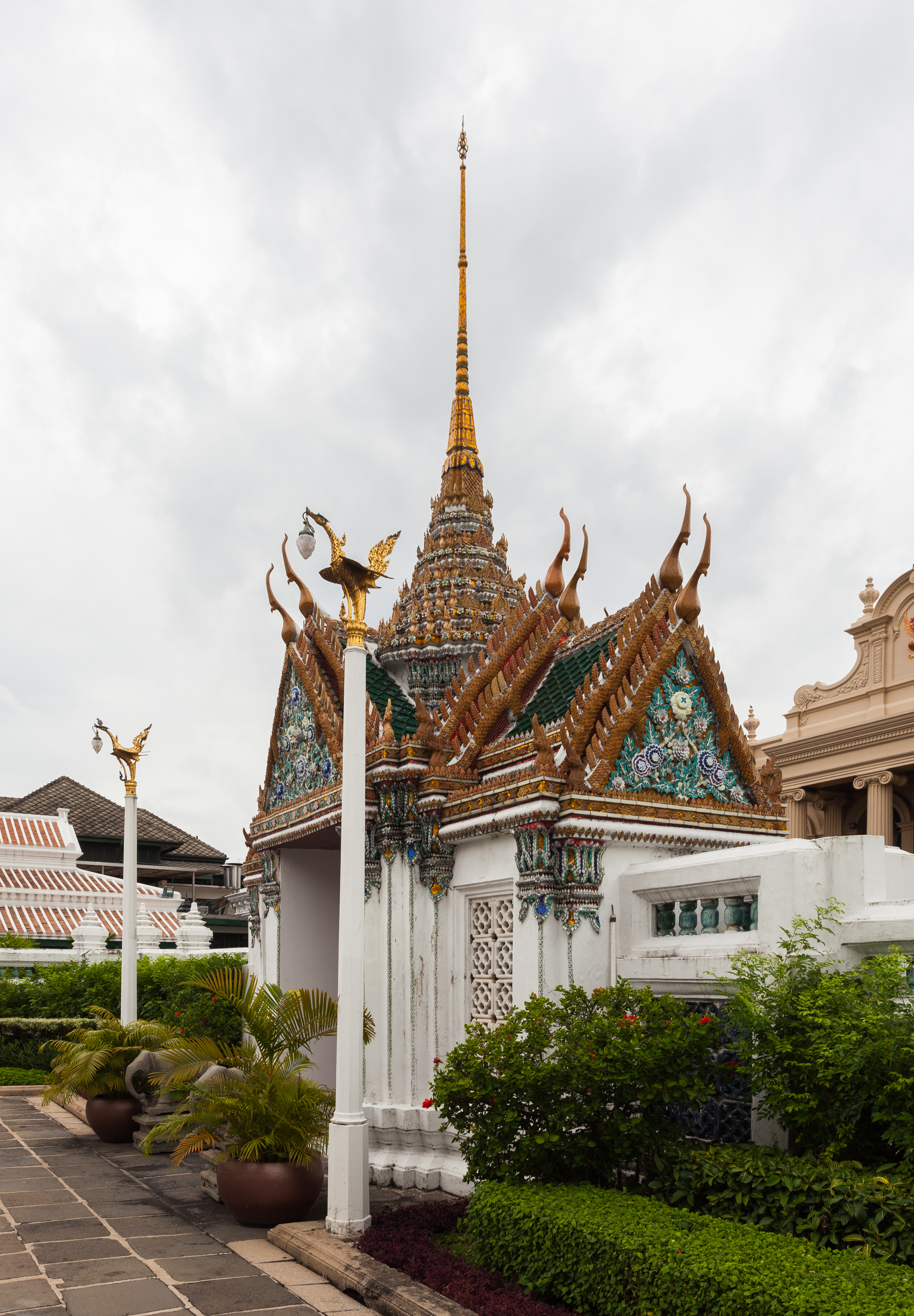 Gradn Palace, Bangkok, Thailand